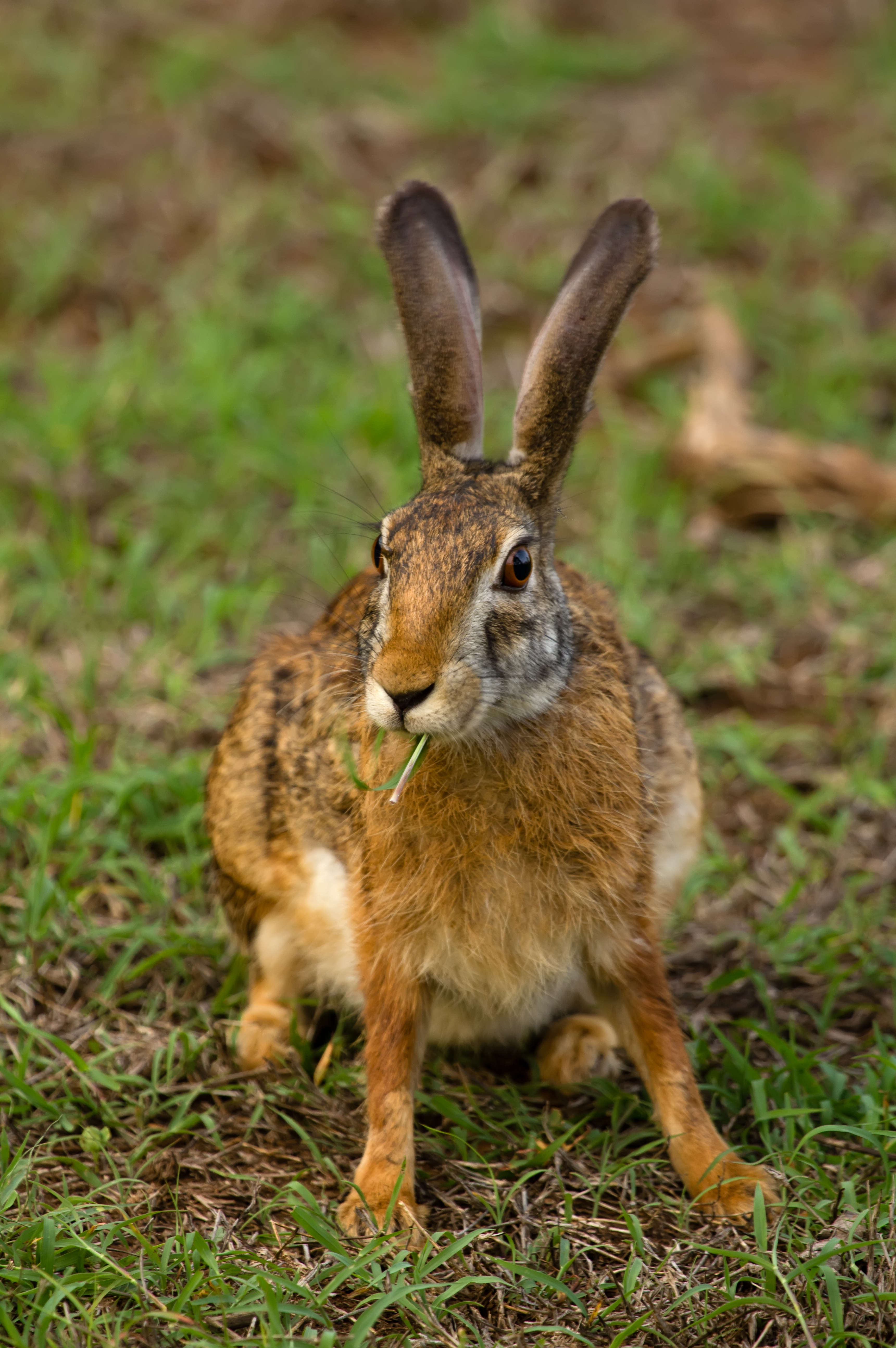 Black Naped Hare at Bandipur - Nilgiri Biosphere Reserve